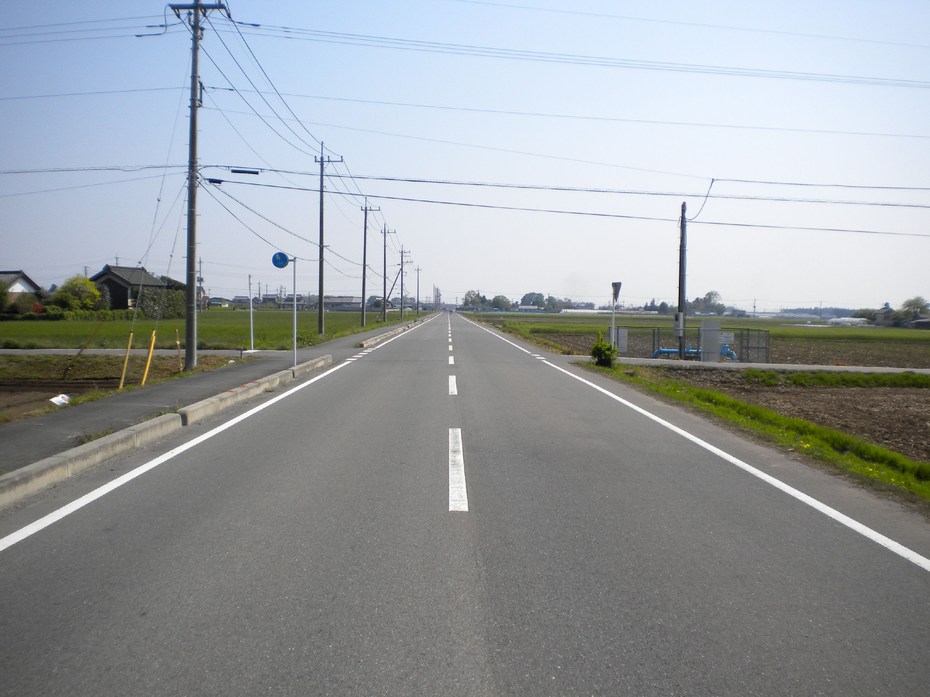 The Tochigi Prefectural Road Route 296 in Tsugamachi Ienaka, Tochigi City